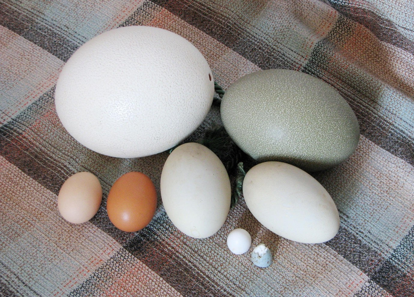 Various eggs. Upper row, left to right: ostrich, cassowary; middle row, left to right: chicken (from a supermarket), chicken (from a country farm), two flamingo eggs; lower row, left to right: pigeon, blackbird.